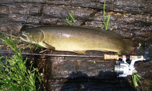 Female Bowfin (due to lake of spot on tail) from the Coosa River, near Wetumpka, Alabama (Released)